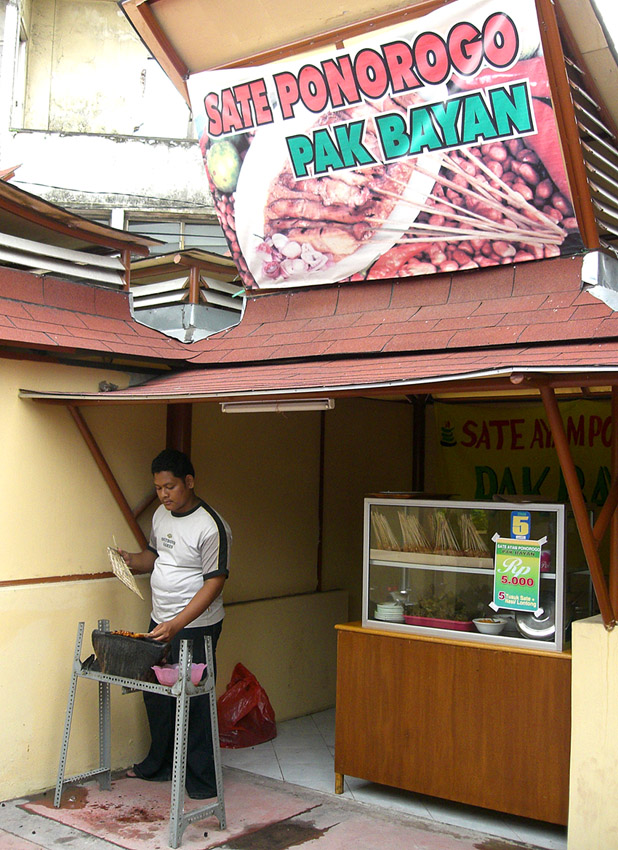 Sate Ponorogo stal in Surabaya, East Java, Indonesia.